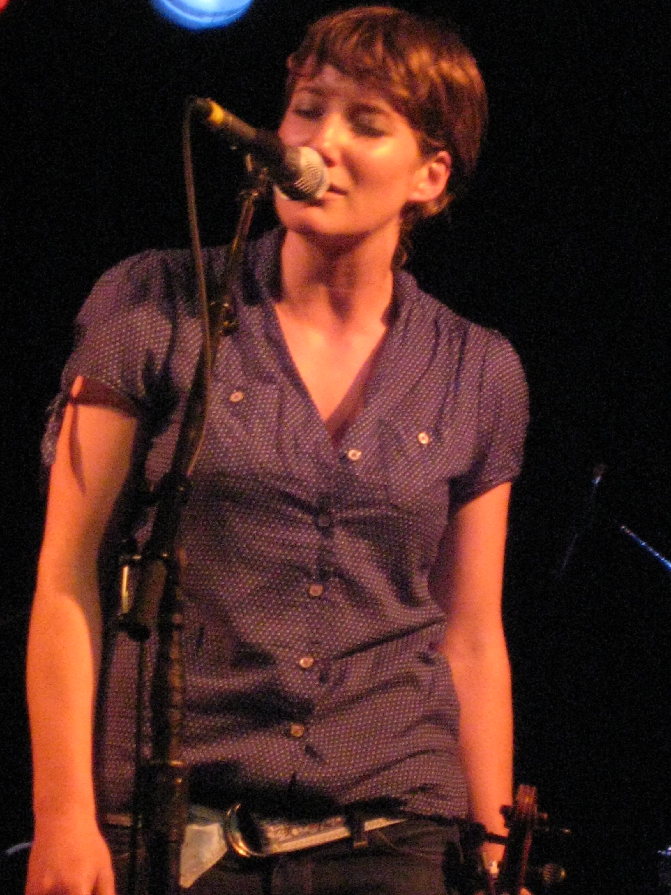 Kathleen Edwards performing at the 2007 NXNE Festival in Toronto